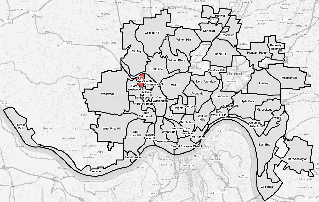 A map of the neighborhood of Fay Apartments within Cincinnati, Ohio. Neighborhood lines are based on information from This street map is derived from a free map.